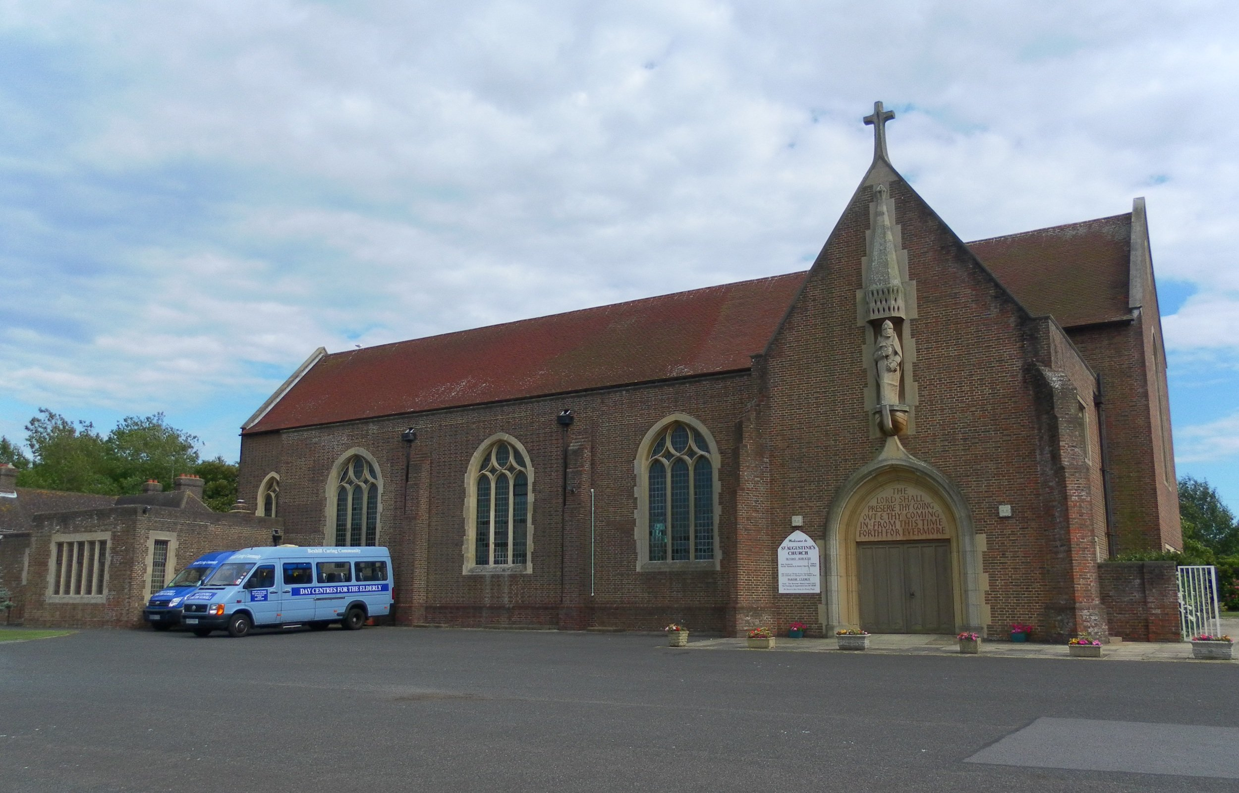 St Augustine's parish church, Bexhill-on-Sea, East Sussex, seen from the northwest